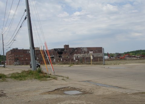 The former Dubuque Packing Plant, being demolished to make room for new development.